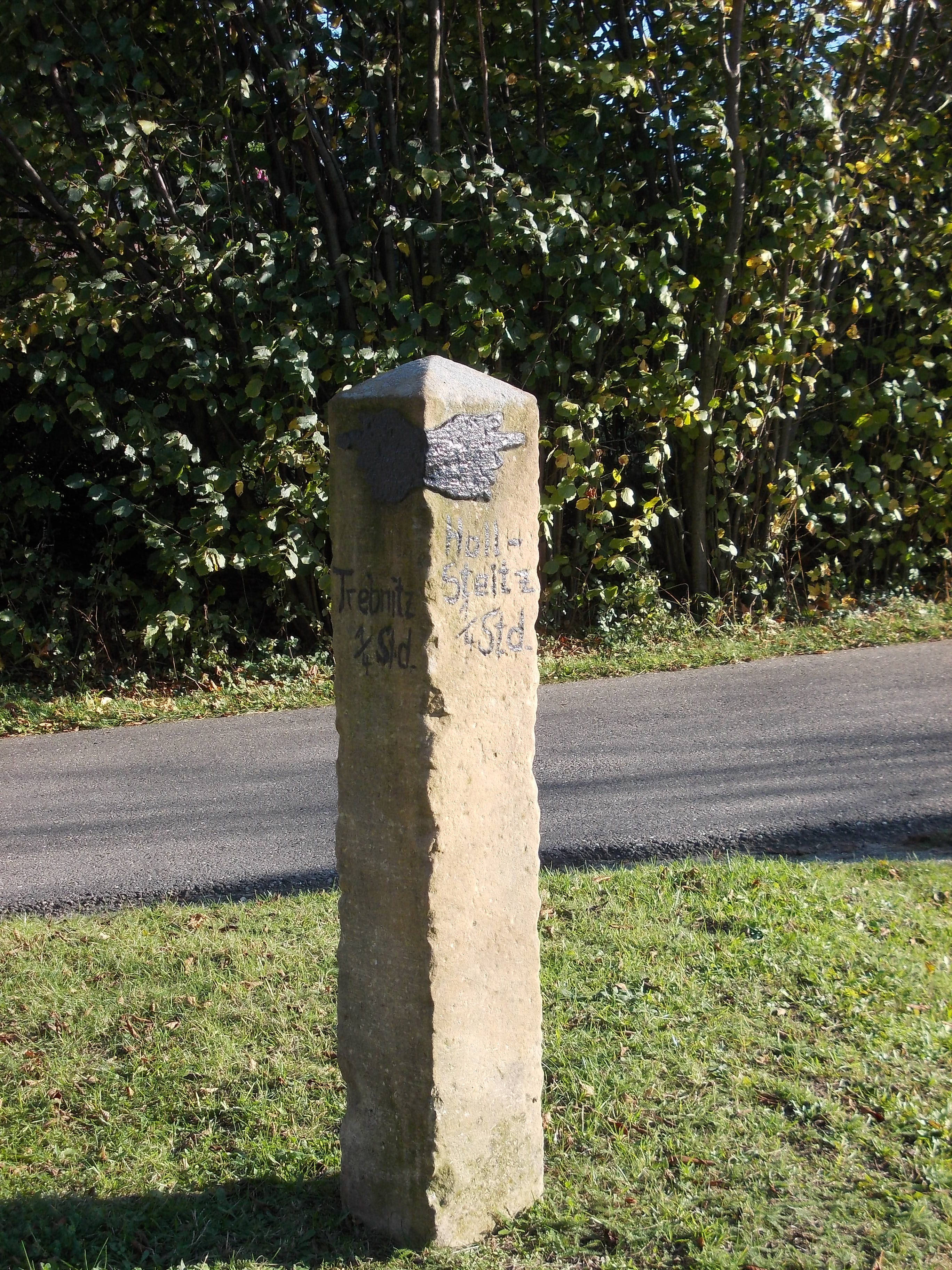 Old signpost in Oberschwöditz (Teuchern, district: Burgenlandkreis, Saxony-Anhalt)